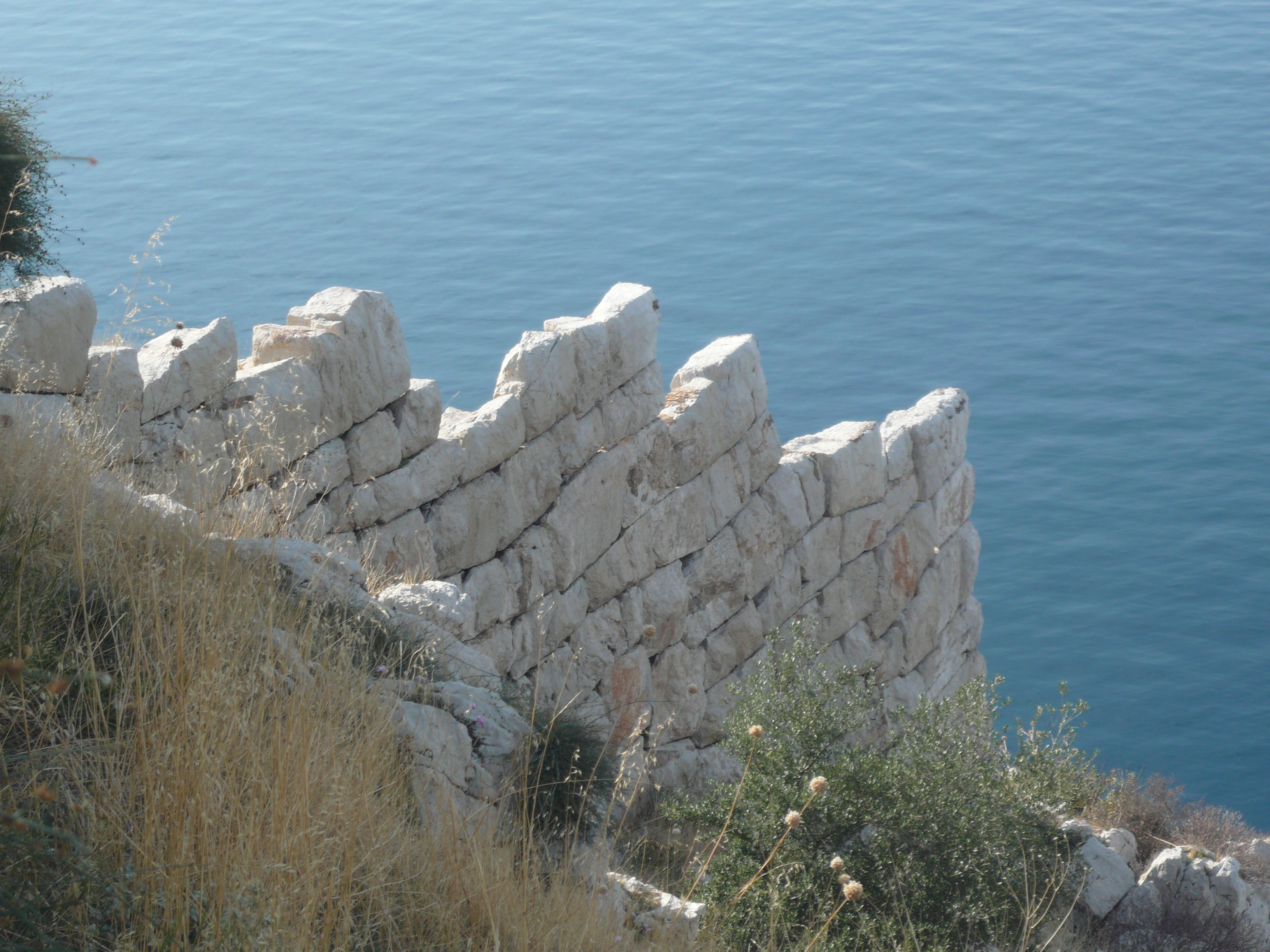 Acropolis of Medeon, Boeotia, Greece